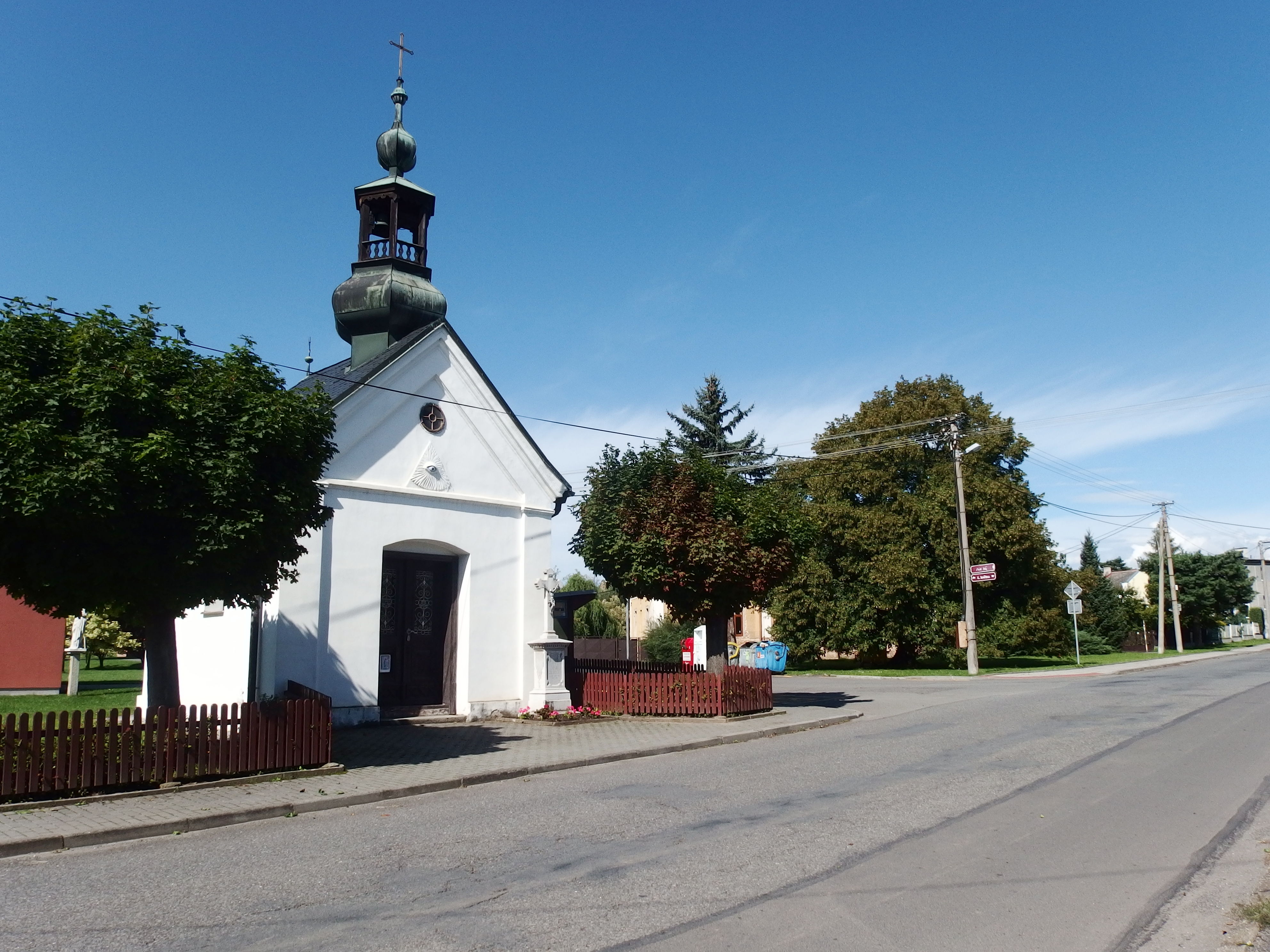 Opava, Czech Republic, part Zlatníky.